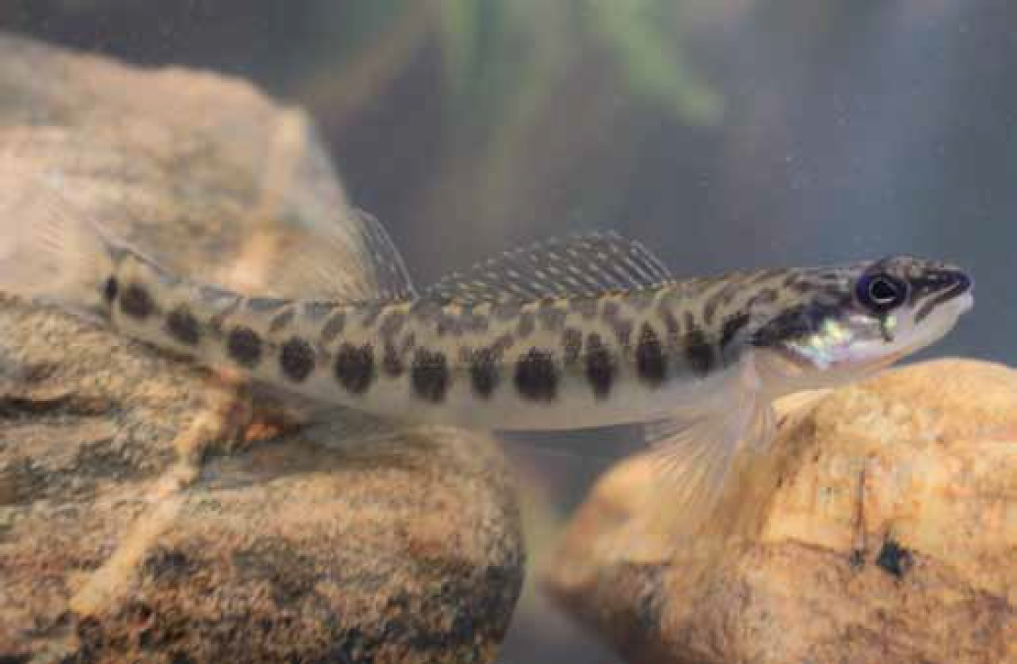 Leopard darter (Percina pantherina)